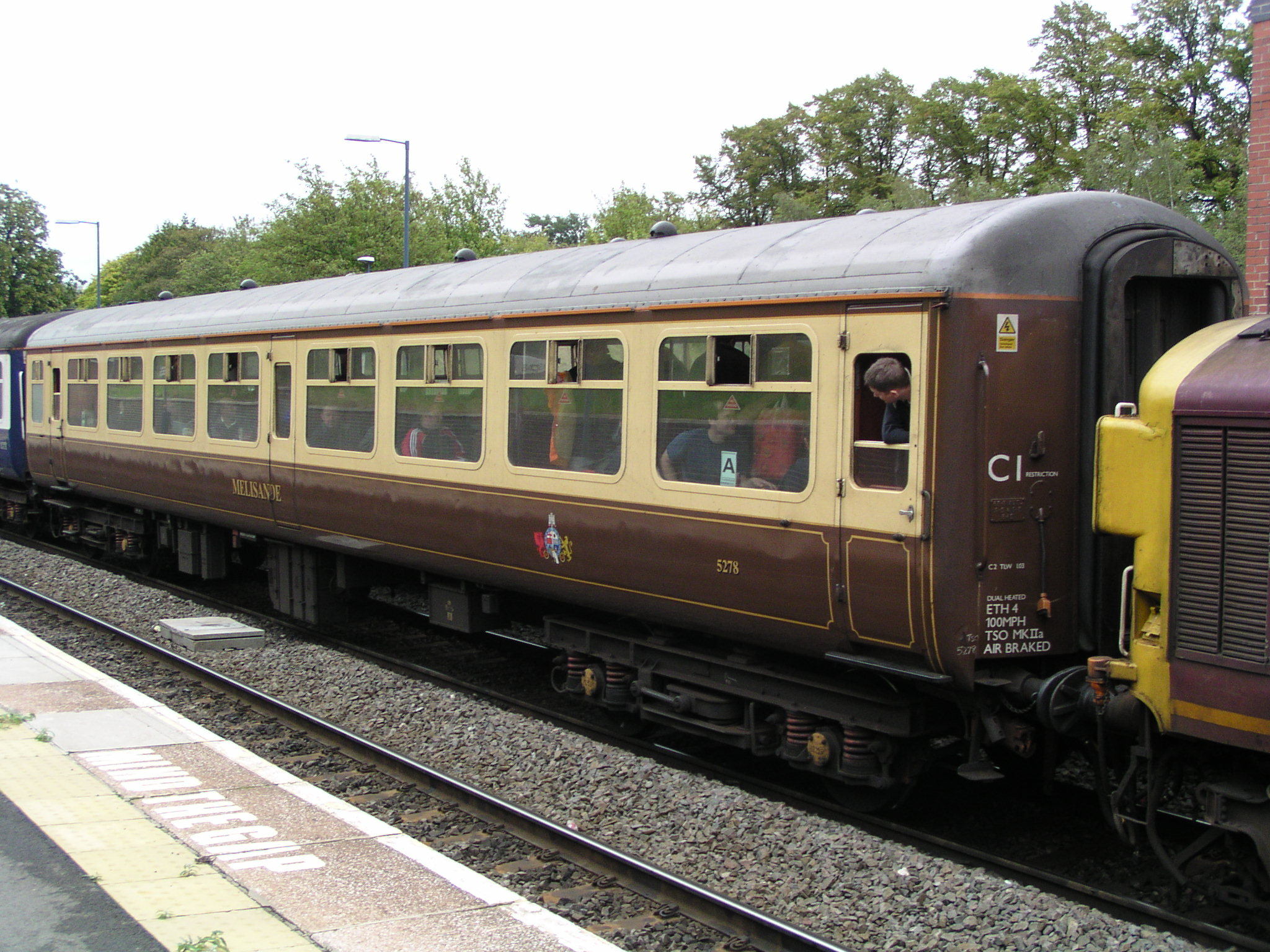 British Rail Mark 2 Tourist Standard Open No. 5278 "Melisande" at Cheltenham Spa on September 18th, 2004, as part of the "Industrial Invader" excursion to Swindon. Melisande belonged to Wessex Trains at the time and is painted in the traditional Pullman umber and cream livery.